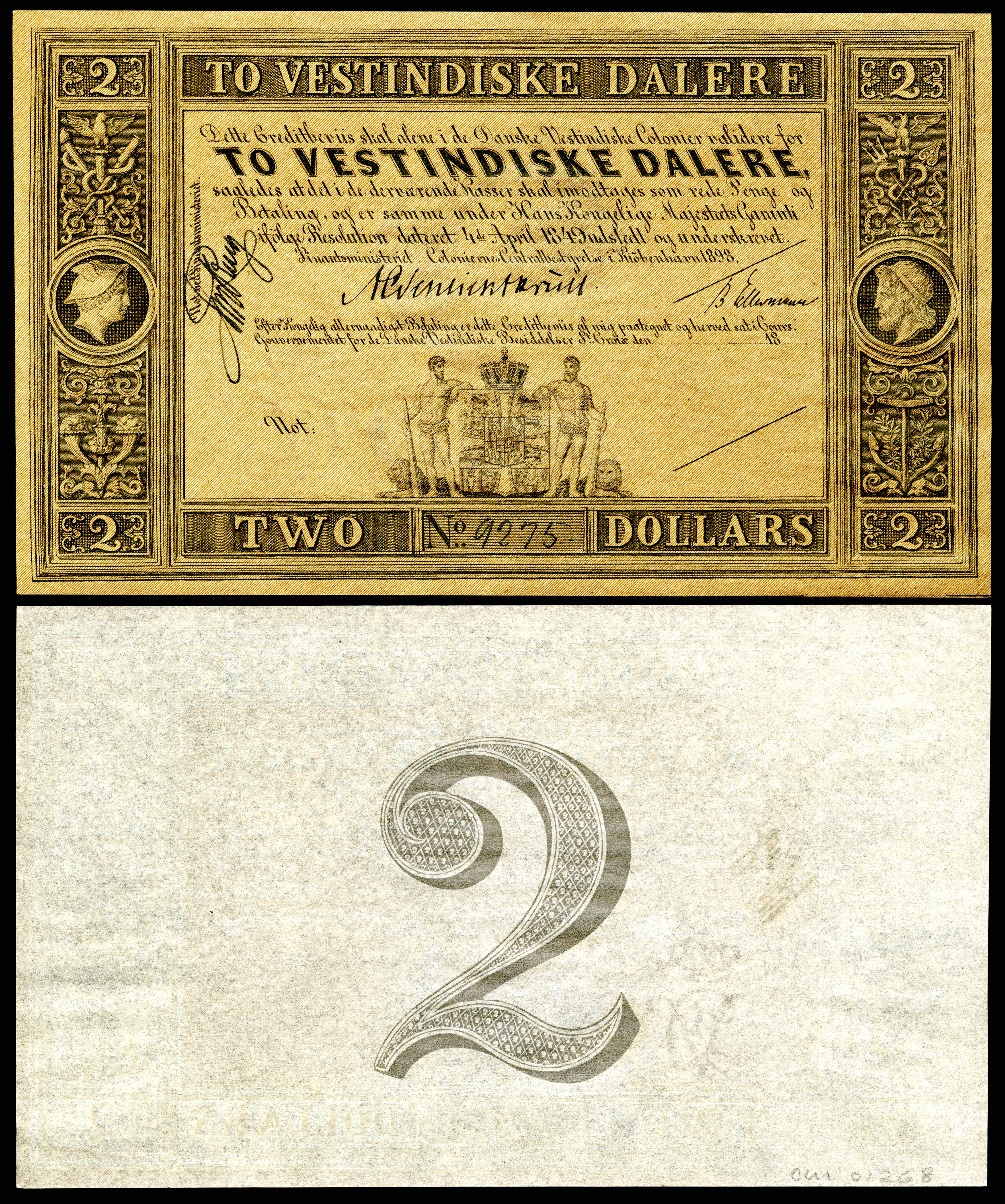 Two dalere (1898), for use in Saint Croix, a colony of Denmark in the Danish West Indies.